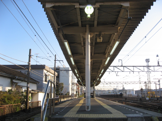 Anzen Station Platform, JR East Tsurumi Line, Japan